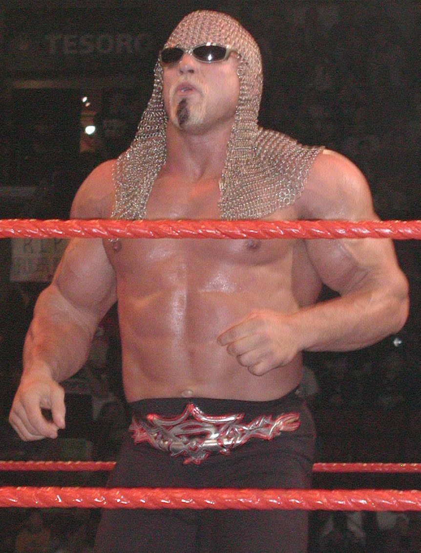 Scott Steiner in the ring at WWE Raw on March 31en:2003 in Seattle, WA